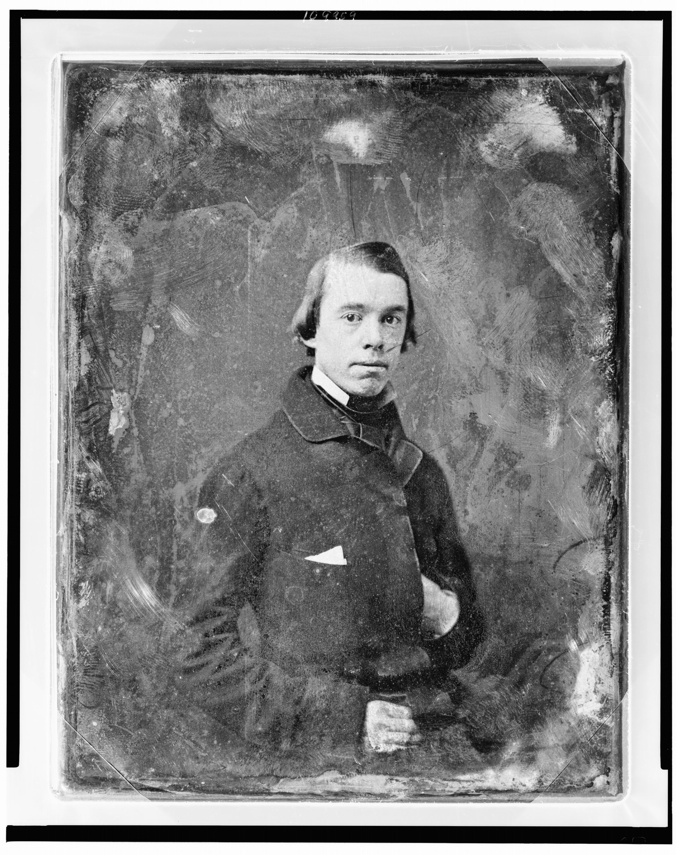 Thomas Starr King, half-length portrait, three-quarters to right, eyes front, with one hand in coat . Unitarian pastor, statesman, author.